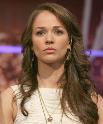 Laisha Wilkins, actriz mexicana